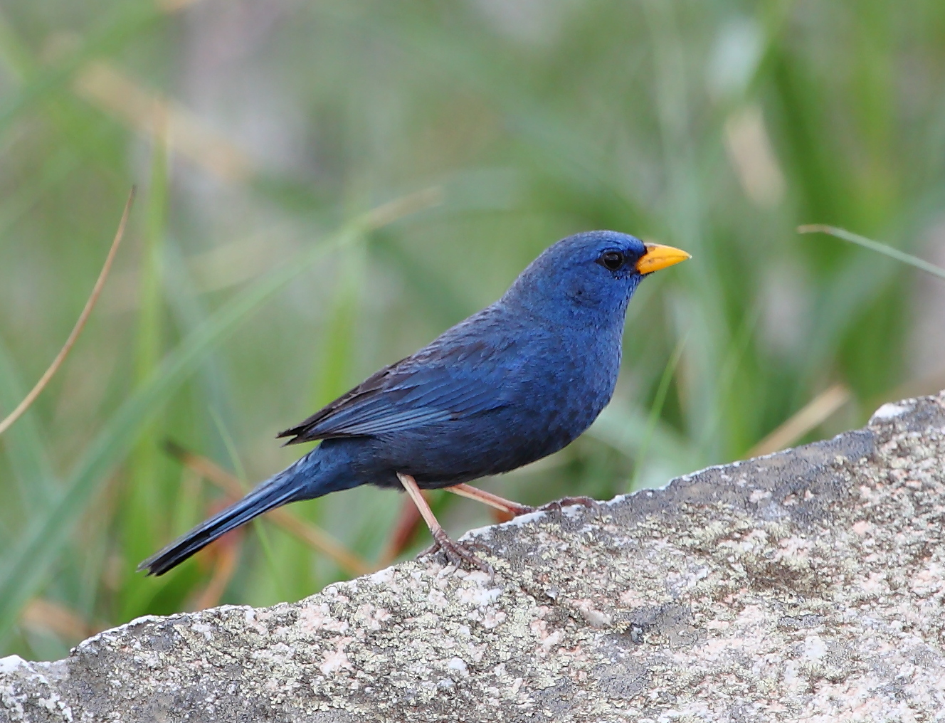 Blue Finch at Serra da Canastra National Park - MG - Brazil